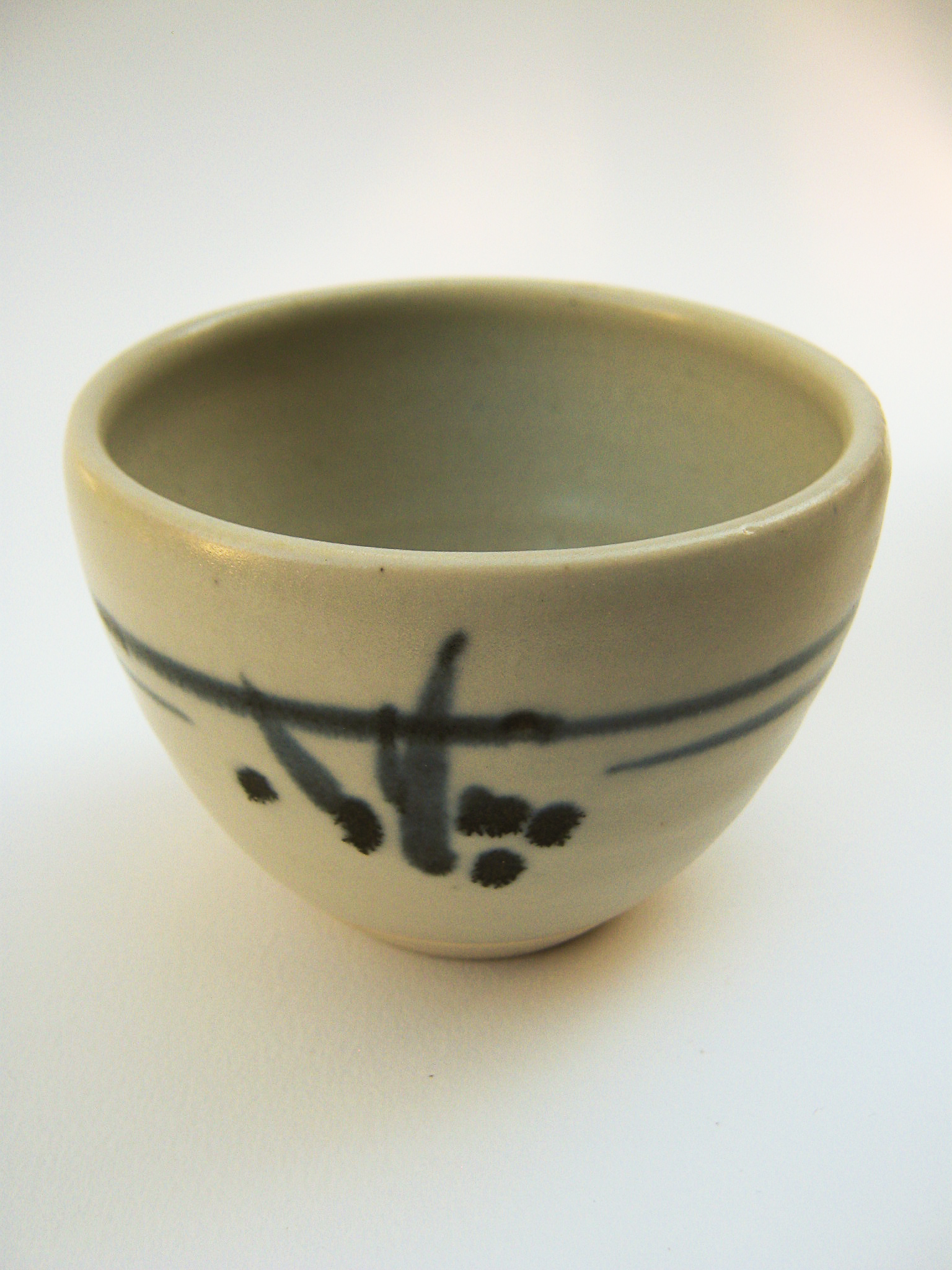 White-glazed cup by Ian Sprague 1960s; photographed in a private collection at Elwood Victoria